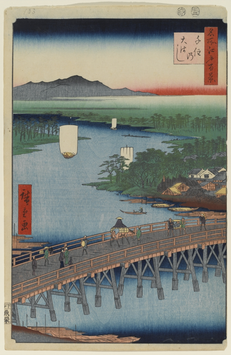 Part of the series One Hundred Famous Views of Edo, no. 103, part 4: Winter.